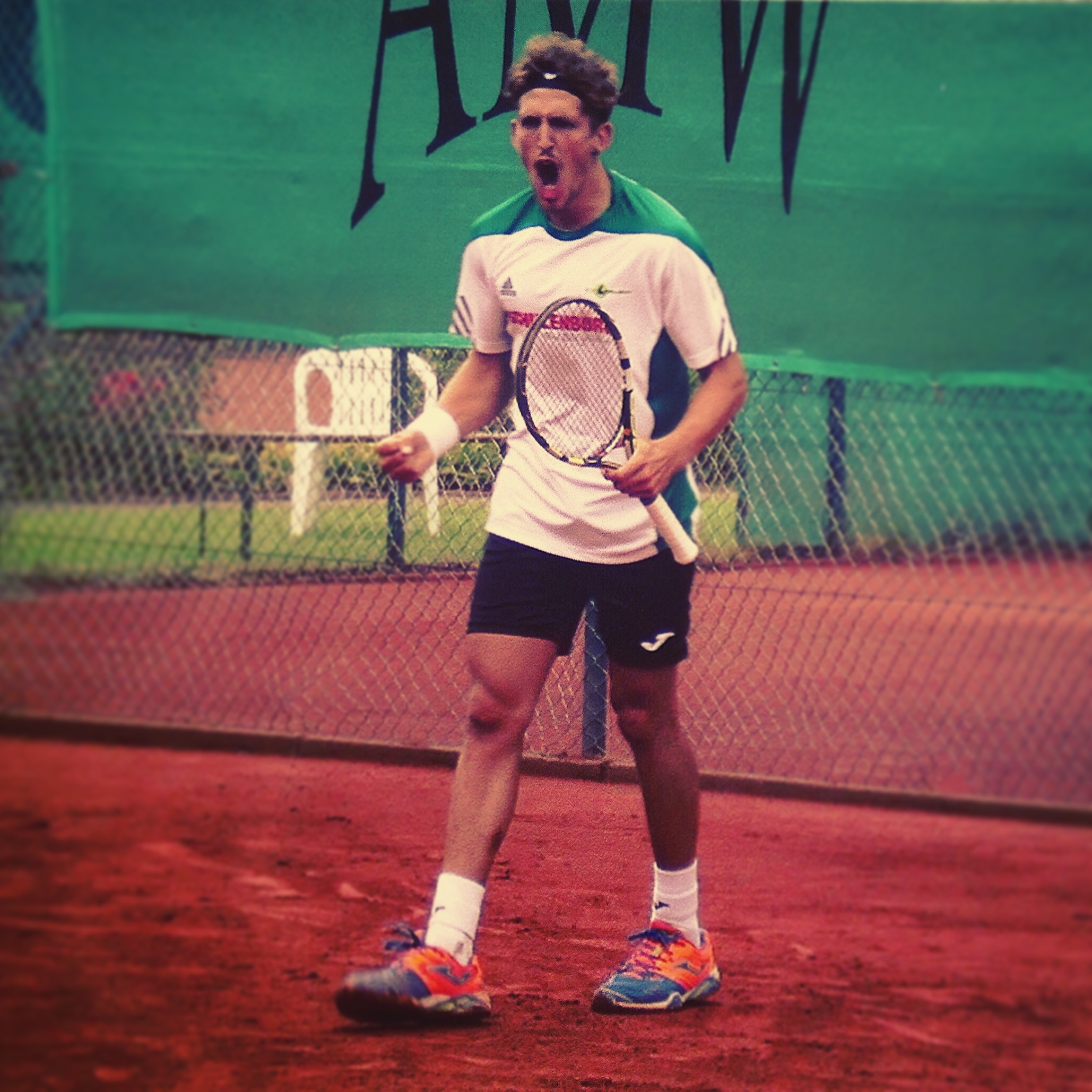 Mario en el momento que anotaba un punto decisivo para su carrera